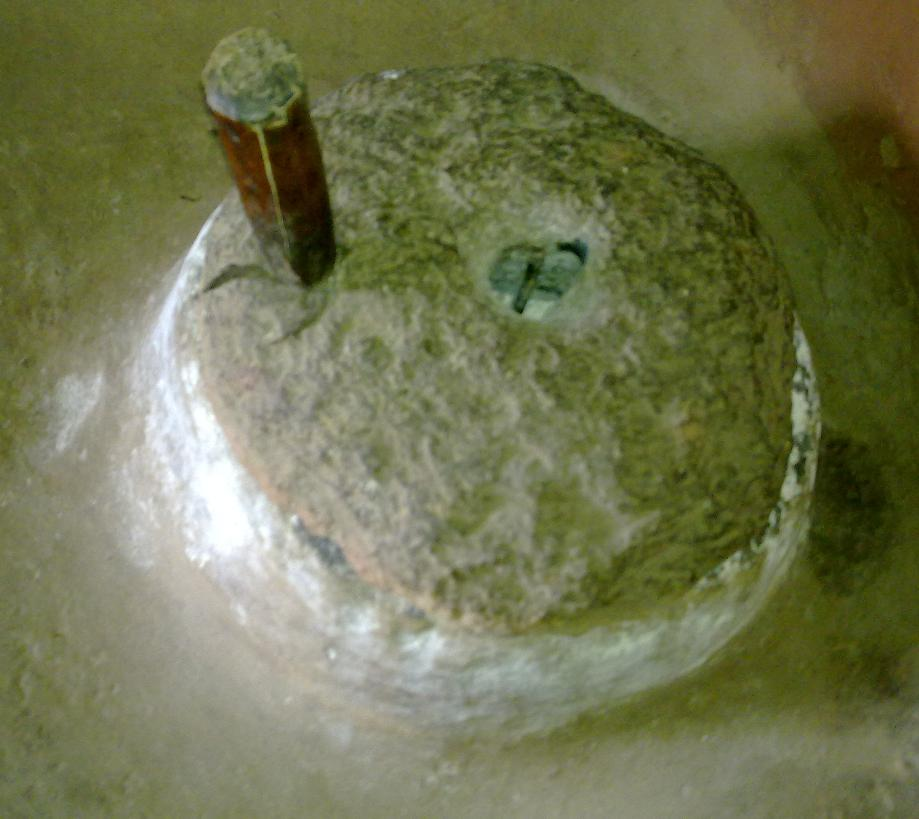 Traditonal grinding stones